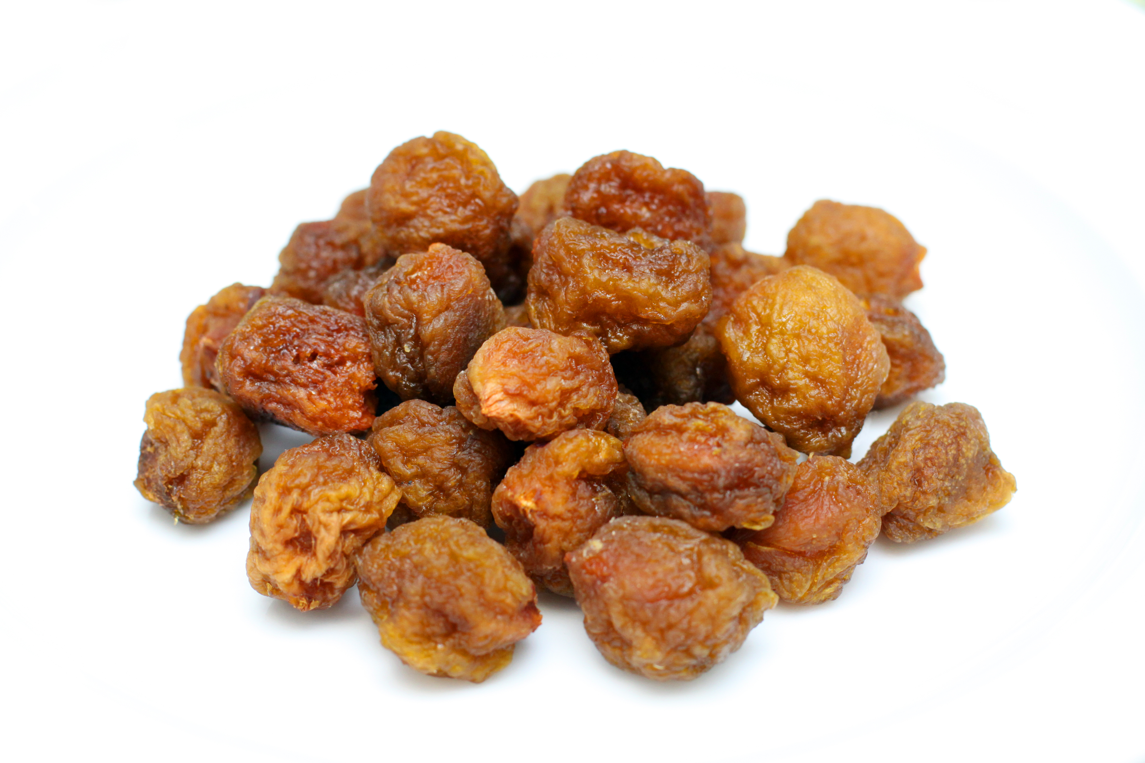 Dried golden plum (Mirabelle plum)